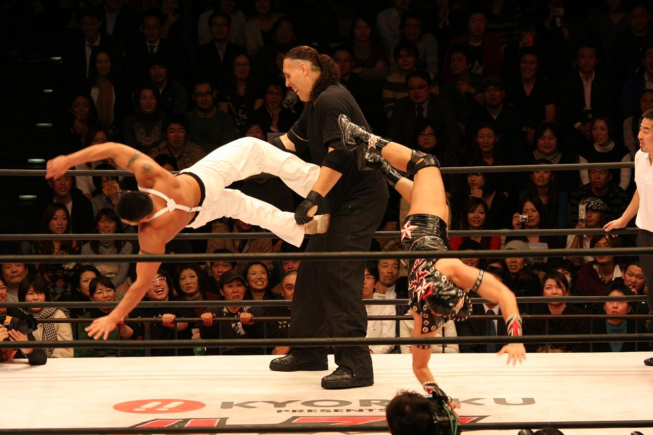 HG and Alan Kuroki performing a double dropkick on Giant Silva.